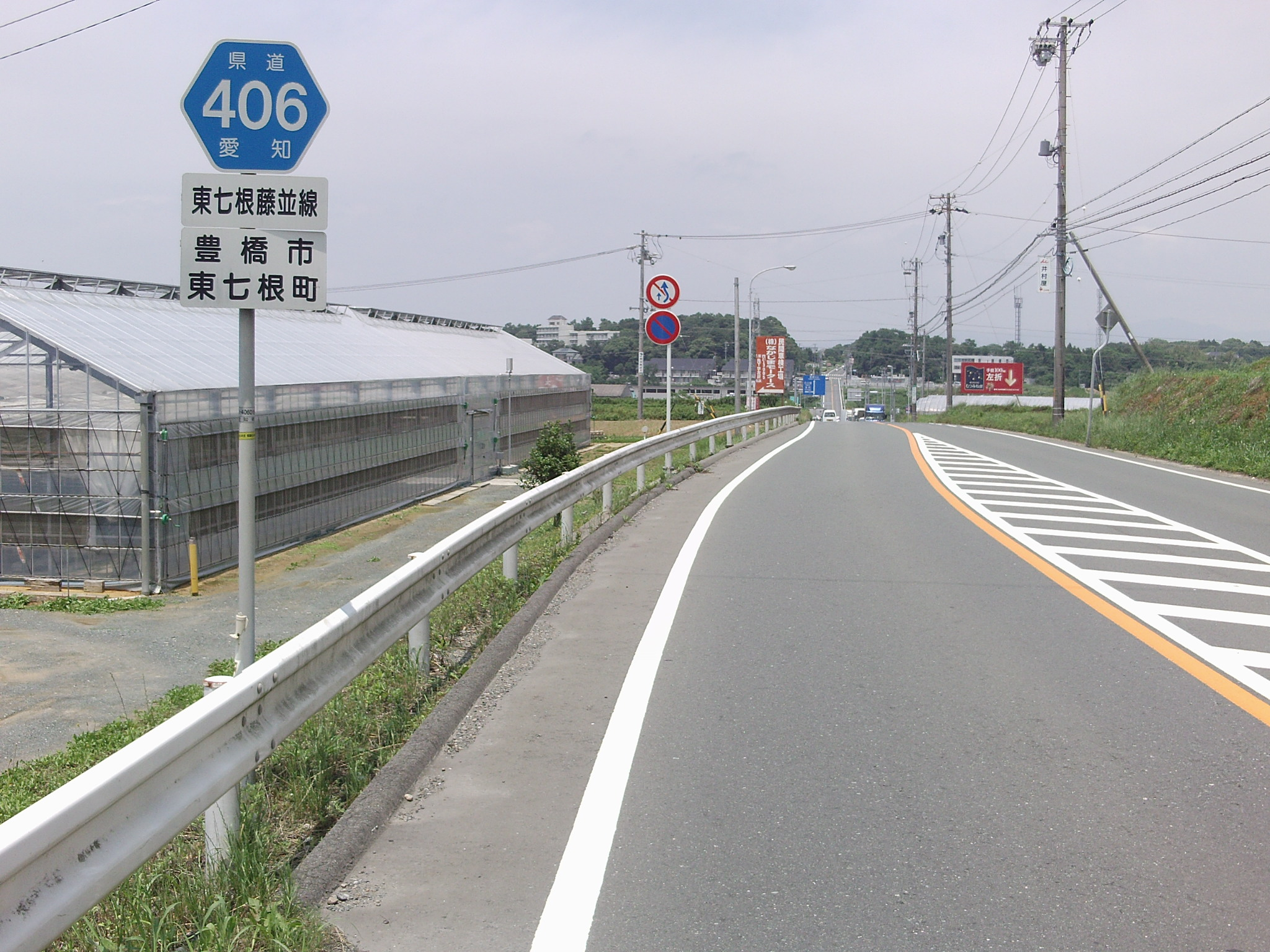 Aichi prefectural road No.406 in Higashinananecho, Toyohashi, Aichi.